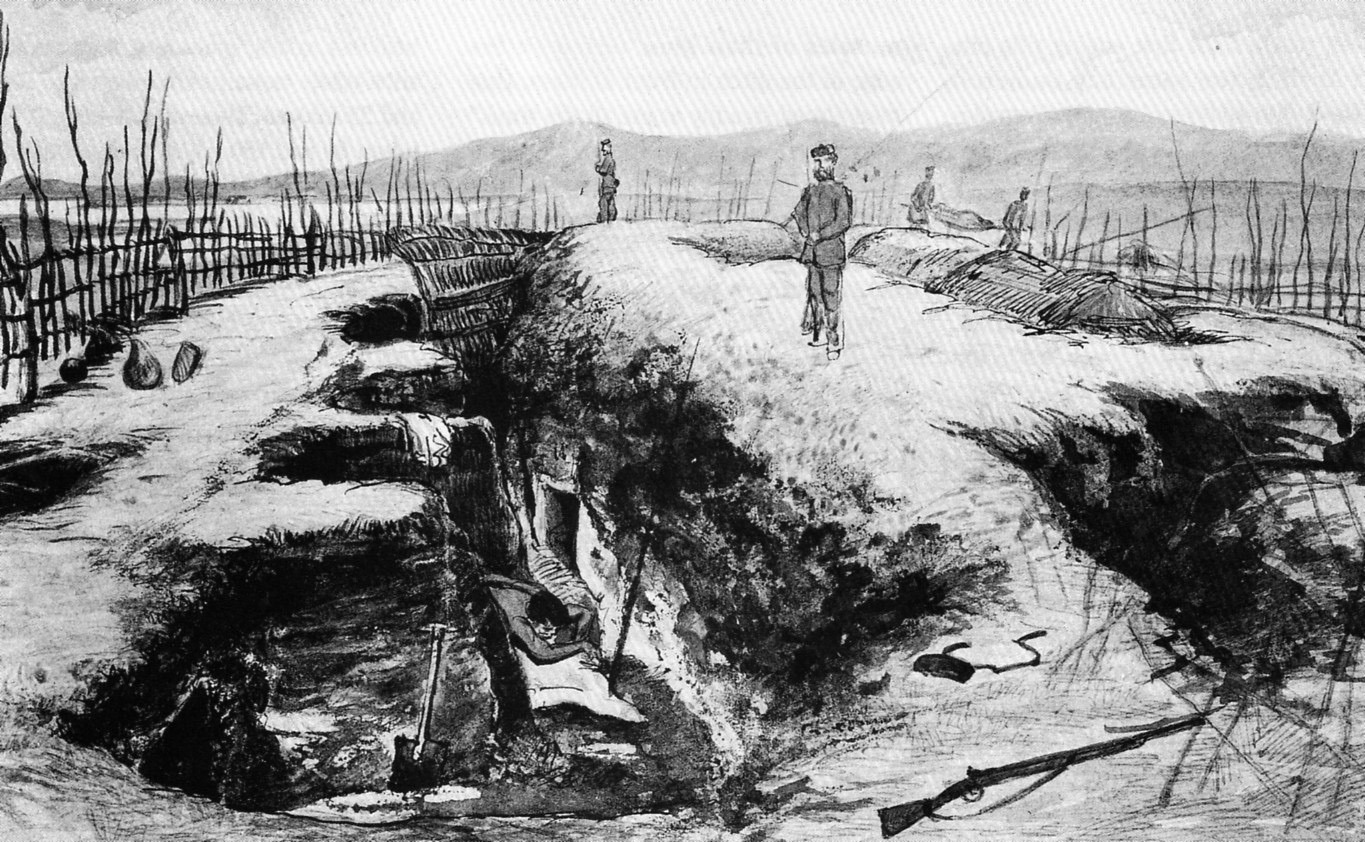 Gate pa in the Bay of Plenty region held up under an all-day artillery barrage; after a 300-man assault failed, the Maoris slipped away in the night.